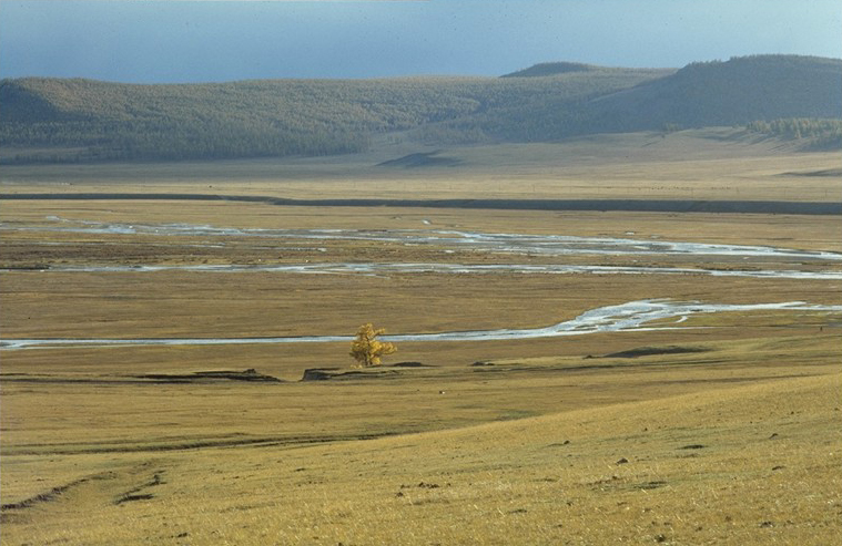 The Mongolian-Manchurian grassland region of the eastern Eurasian Steppe — in Mongolia. Single tree, in grassland and river panorama.